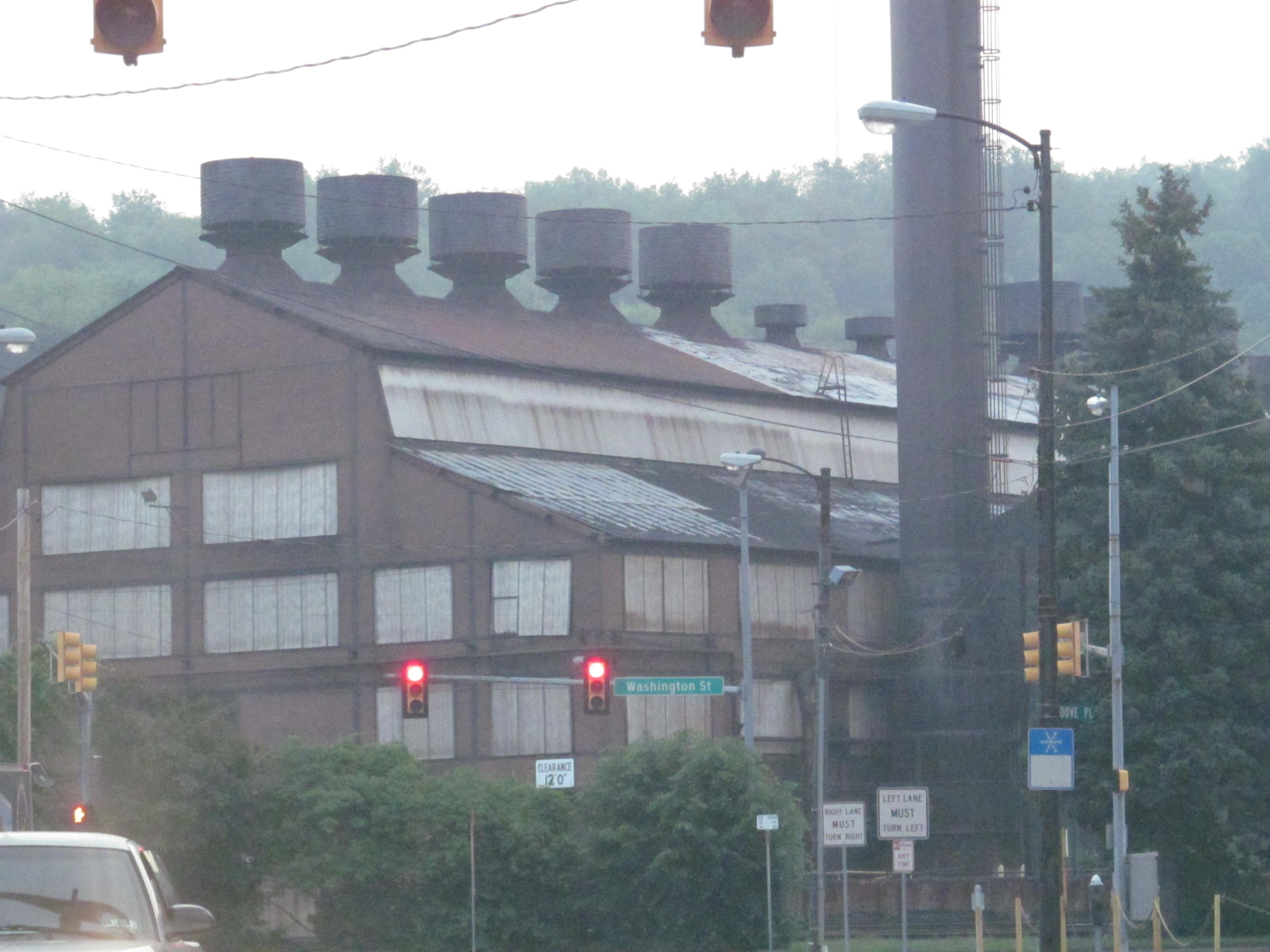 Johnstown, Pennsylvania